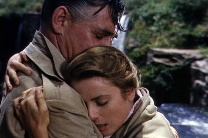 Screenshot of Grace Kelly and Clark Gable from the trailer of the film Mogambo